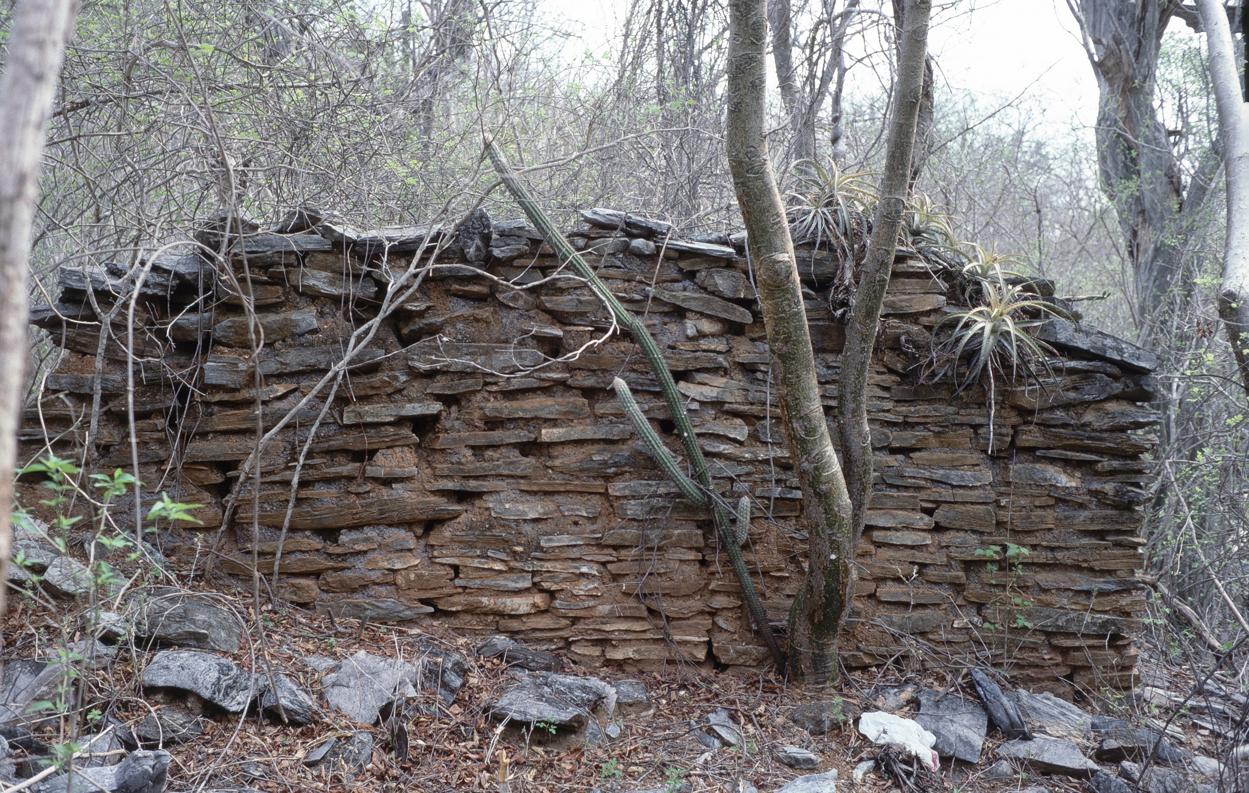 Guiengola, Oaxaca, Mexico: Walls near the palace area